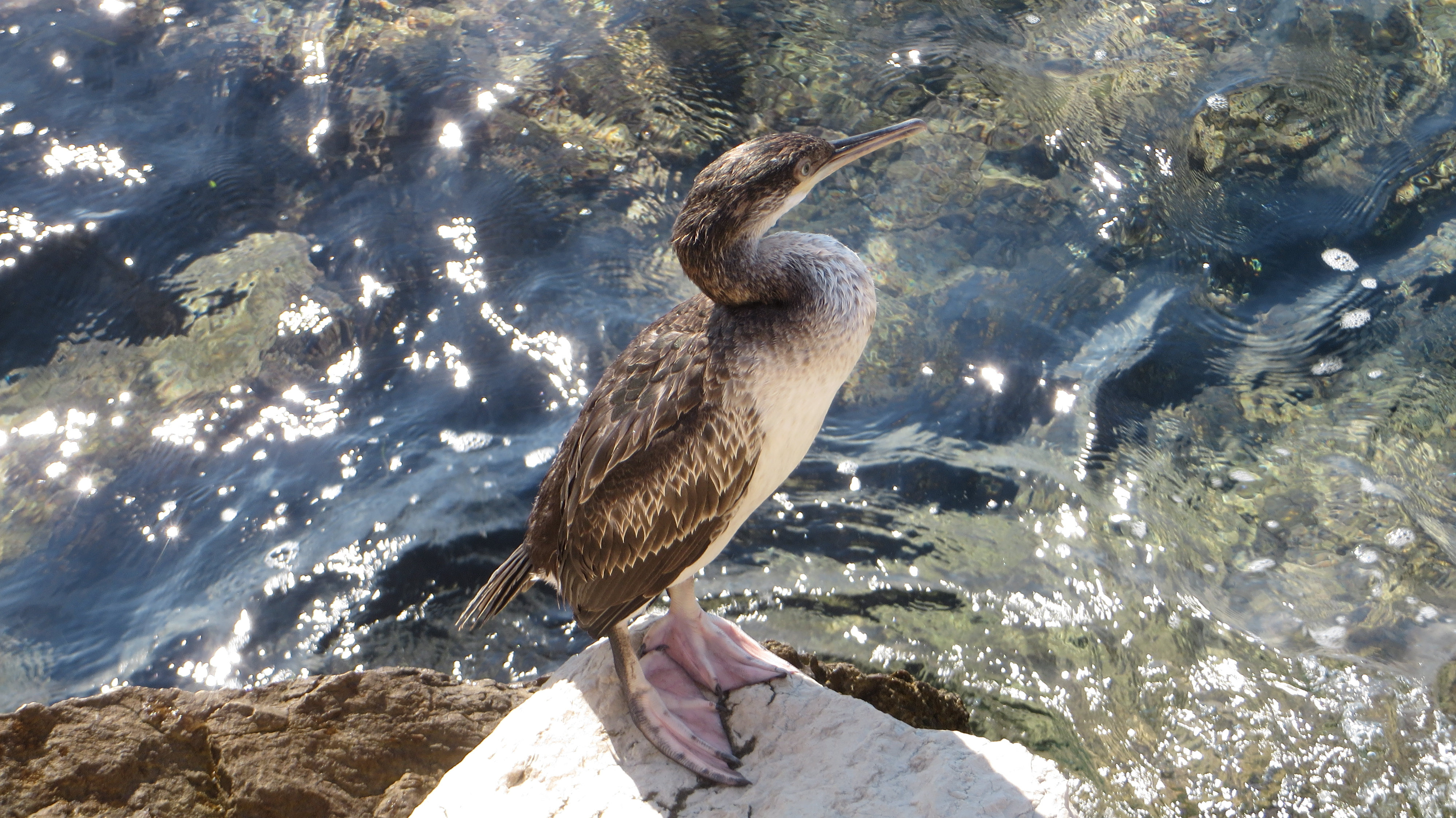 Juvenile European Shag in the harbour of Piran, Slovenia